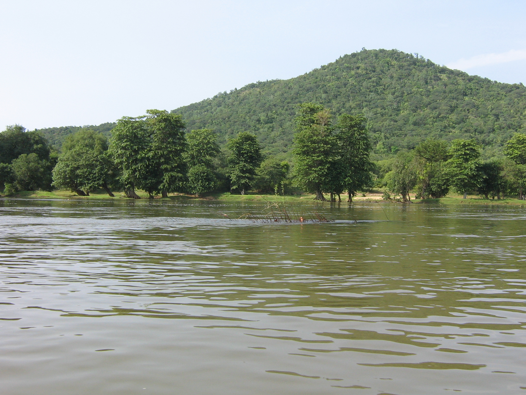 Kaveri river at Hogenakkal